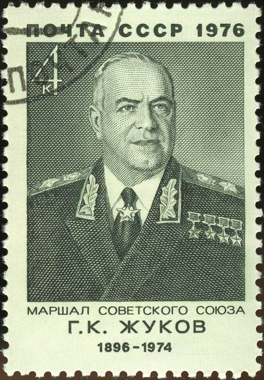 A USSR stamp, Military persons of the USSR